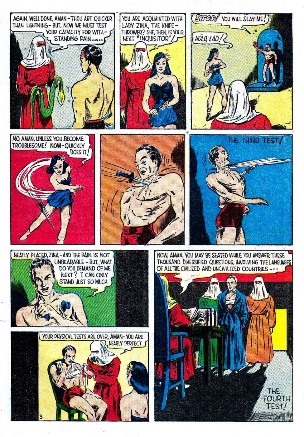 Amazing-Man Comcis #05 (September 1939) first appearance of the Amazing-Man.